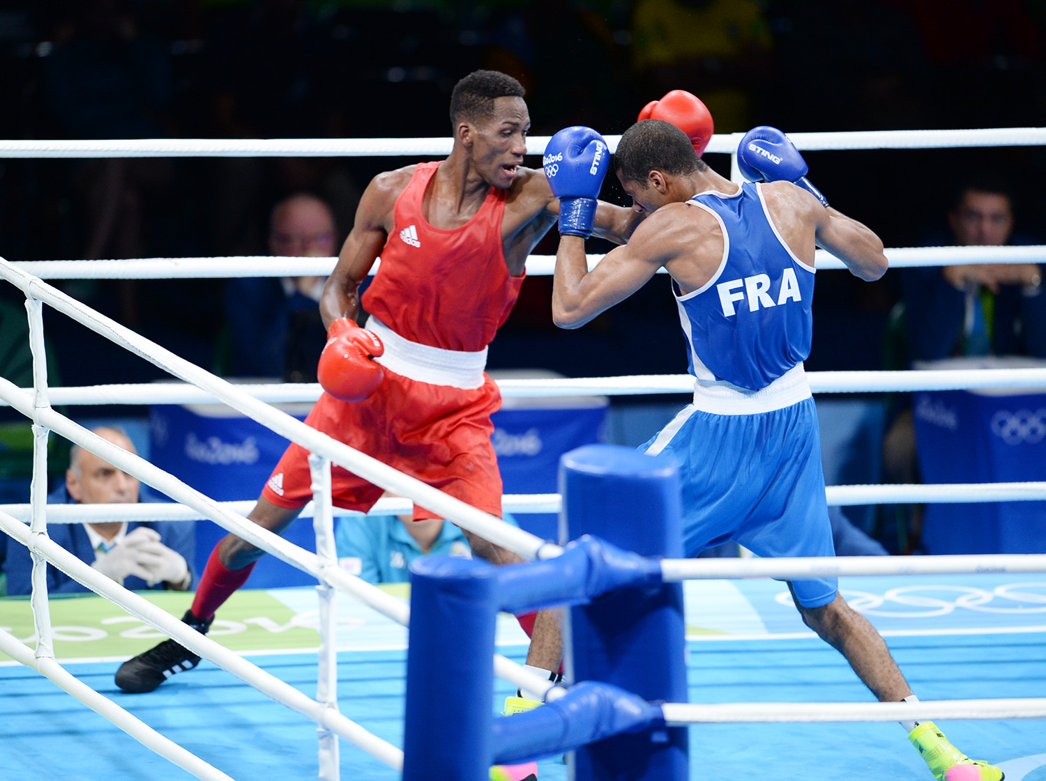 Boxing at the 2016 Summer Olympics, Sotomayor vs Amzile